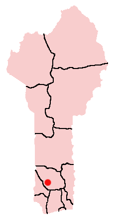 Abomey, Benin Location Map; created with the GIMP. Made by User:Acntx.